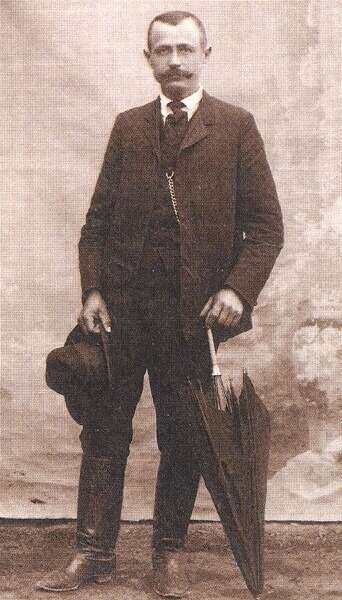 Hungarian politician István Nagyatádi Szabó around 1908